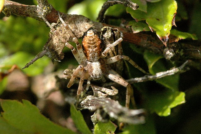 female Philodromus cespitum from Commanster, Belgian High Ardennes .